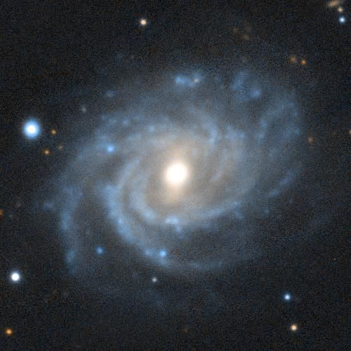 PanSTARRS image of NGC 3336.